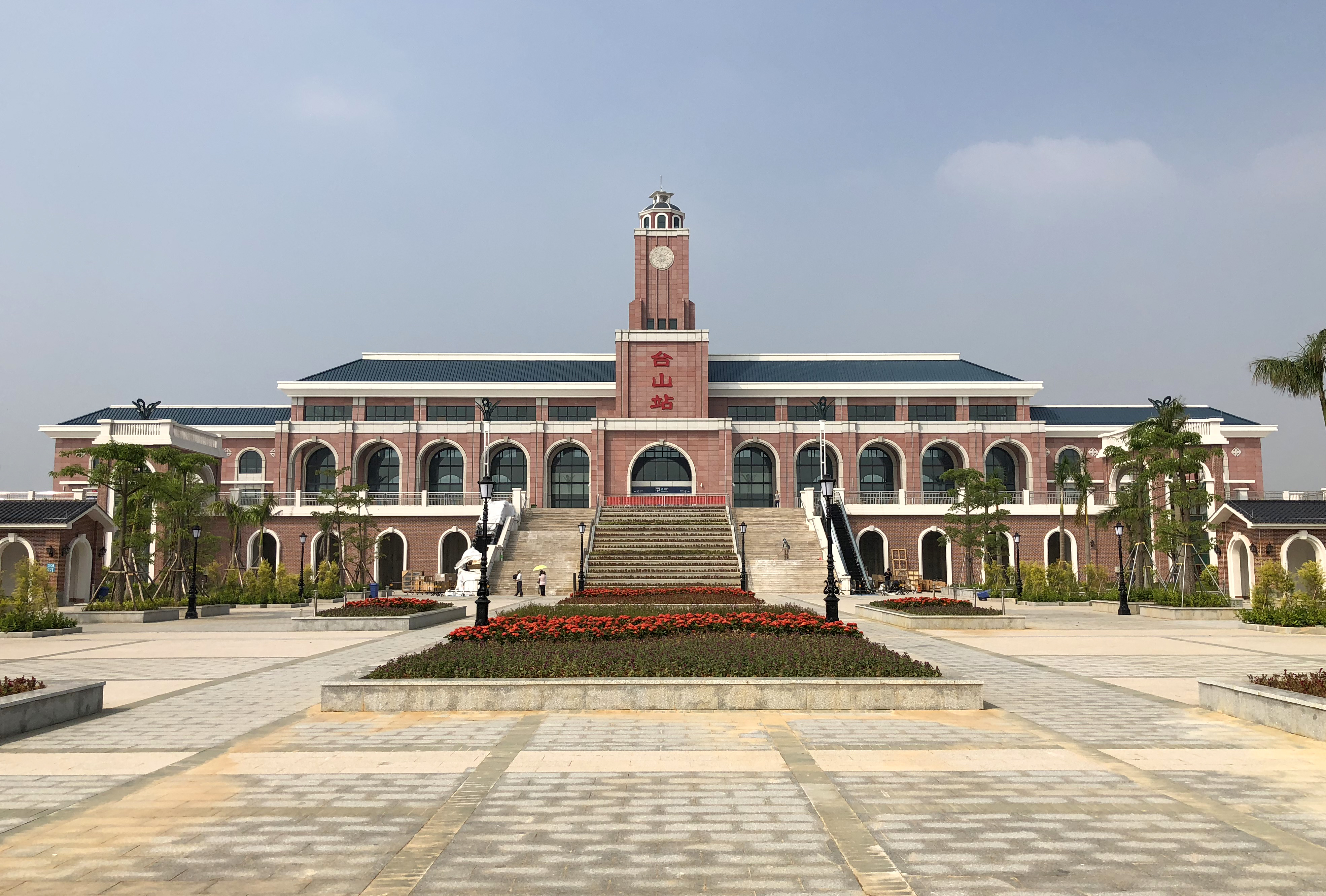 Now the things are clear: The old station on Sunning Railway was derived from King Street Station in Seattle, and the new station is inspired by the old Ningcheng Station... so is it a "third-order derivative" of King Street Station?